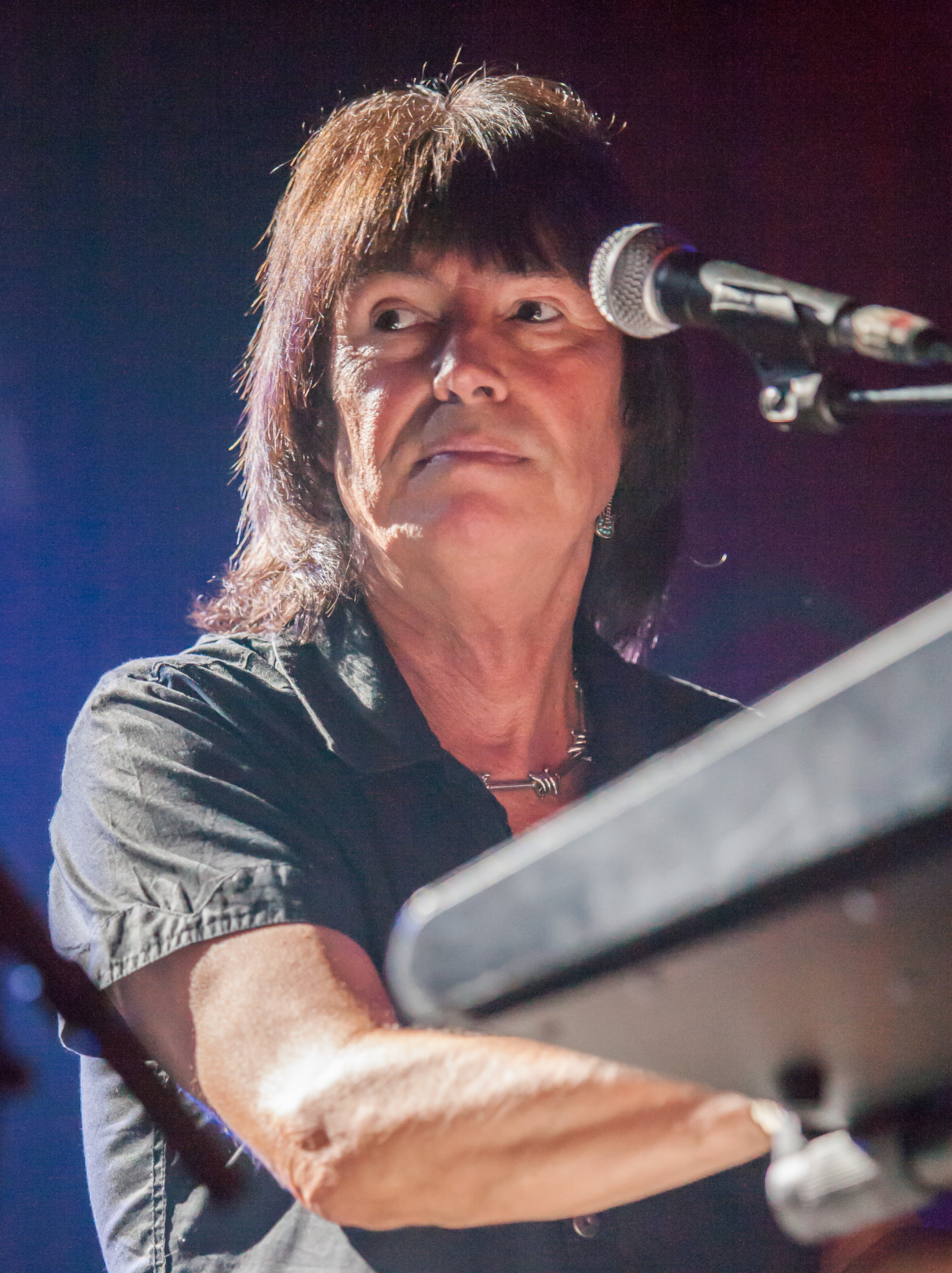 Paul Raymond, keyboardist and rhythm guitar player of the band UFO at music club “Kantine” in Cologne